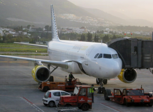 A Vueling Airlines at Malaga Airport. This was the aircraft involved in the incident of Vueling flight VY9127, but it was in Clickair livery.